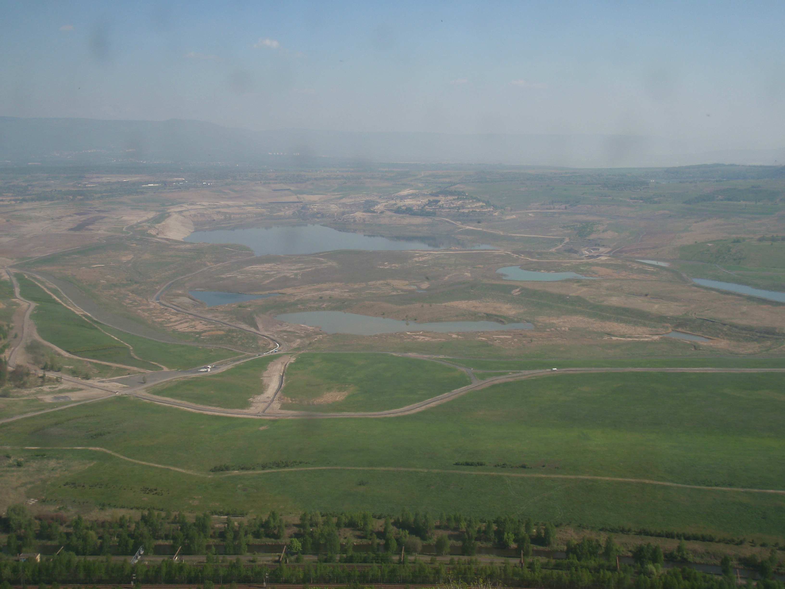 Land- Reclamation (Recultivation) lake Most